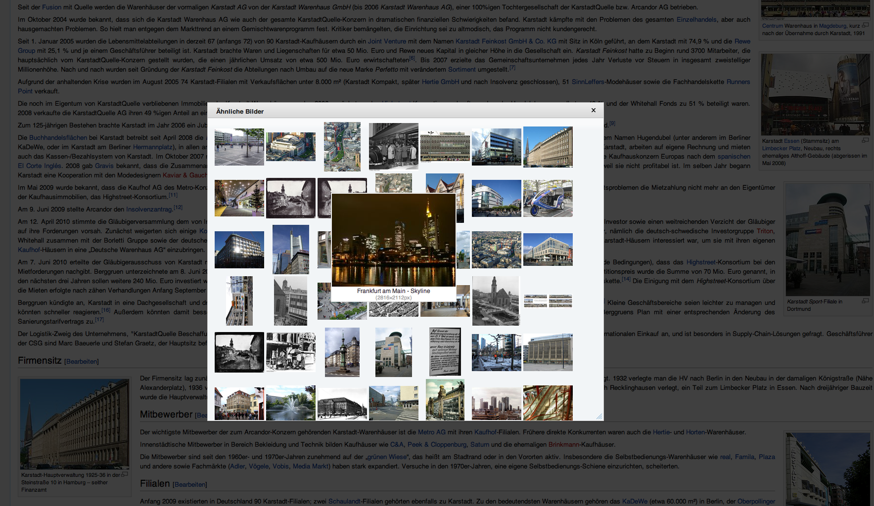 wikipic demo screenshot